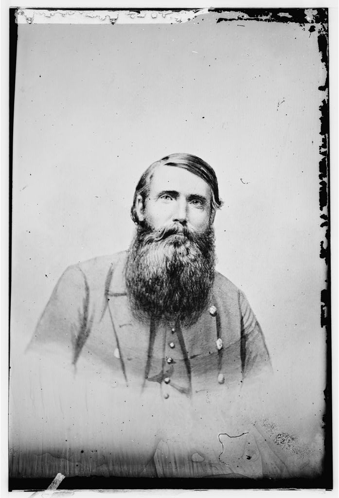 Capt. John H. McNeill, C.S.A., Civil war photographs, 1861-1865, Library of Congress, Prints and Photographs Division